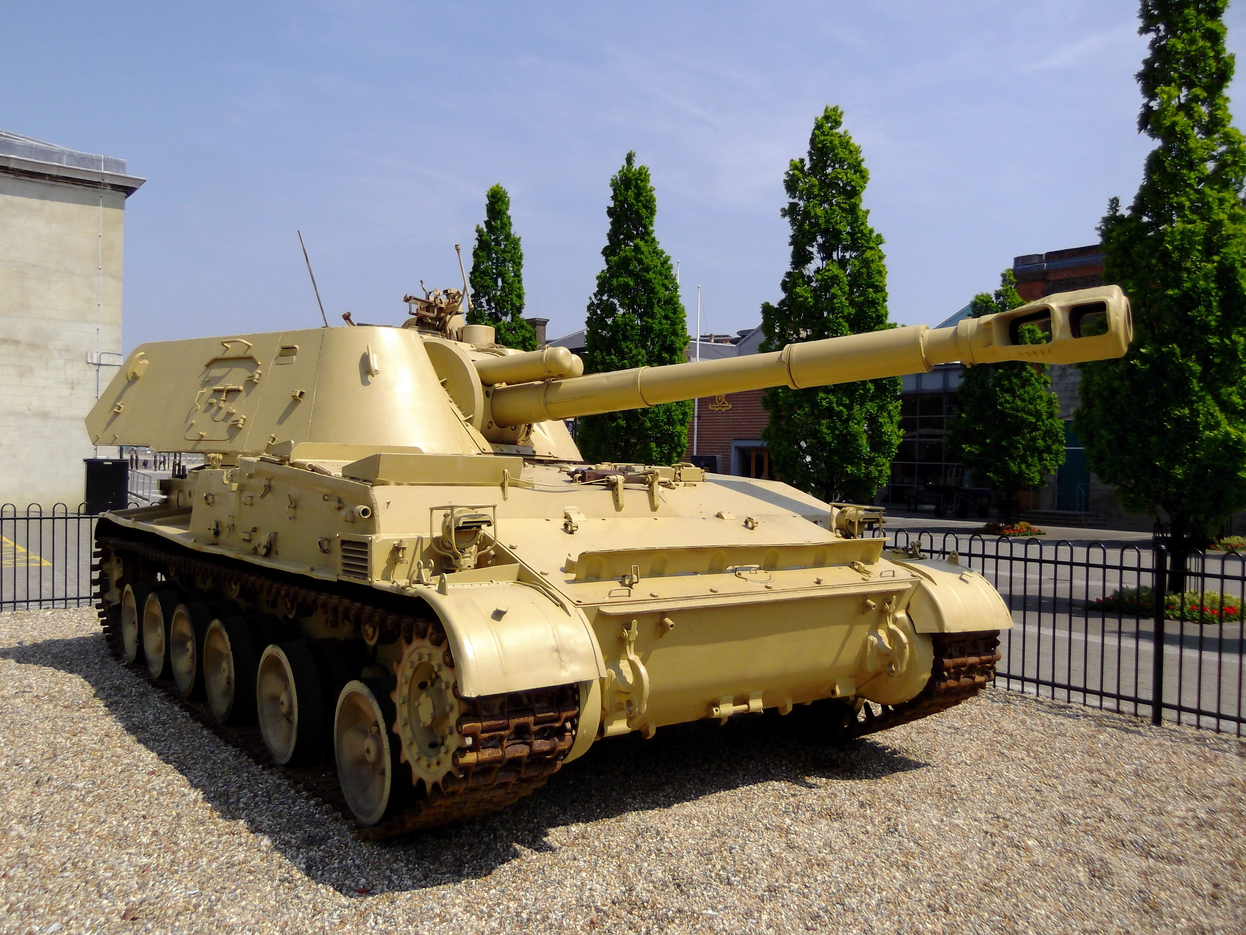 Soviet 2S3 Akatsiya in the Royal Artillery Museum Tank Woolwich London.